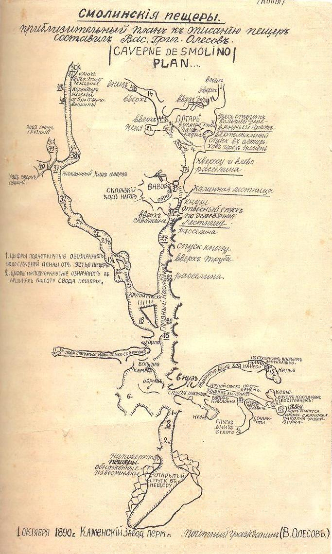 Smolinskaya Cave